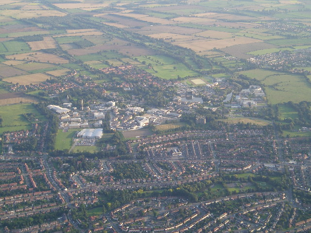 York University Campus. Taken from a balloon on an early September evening